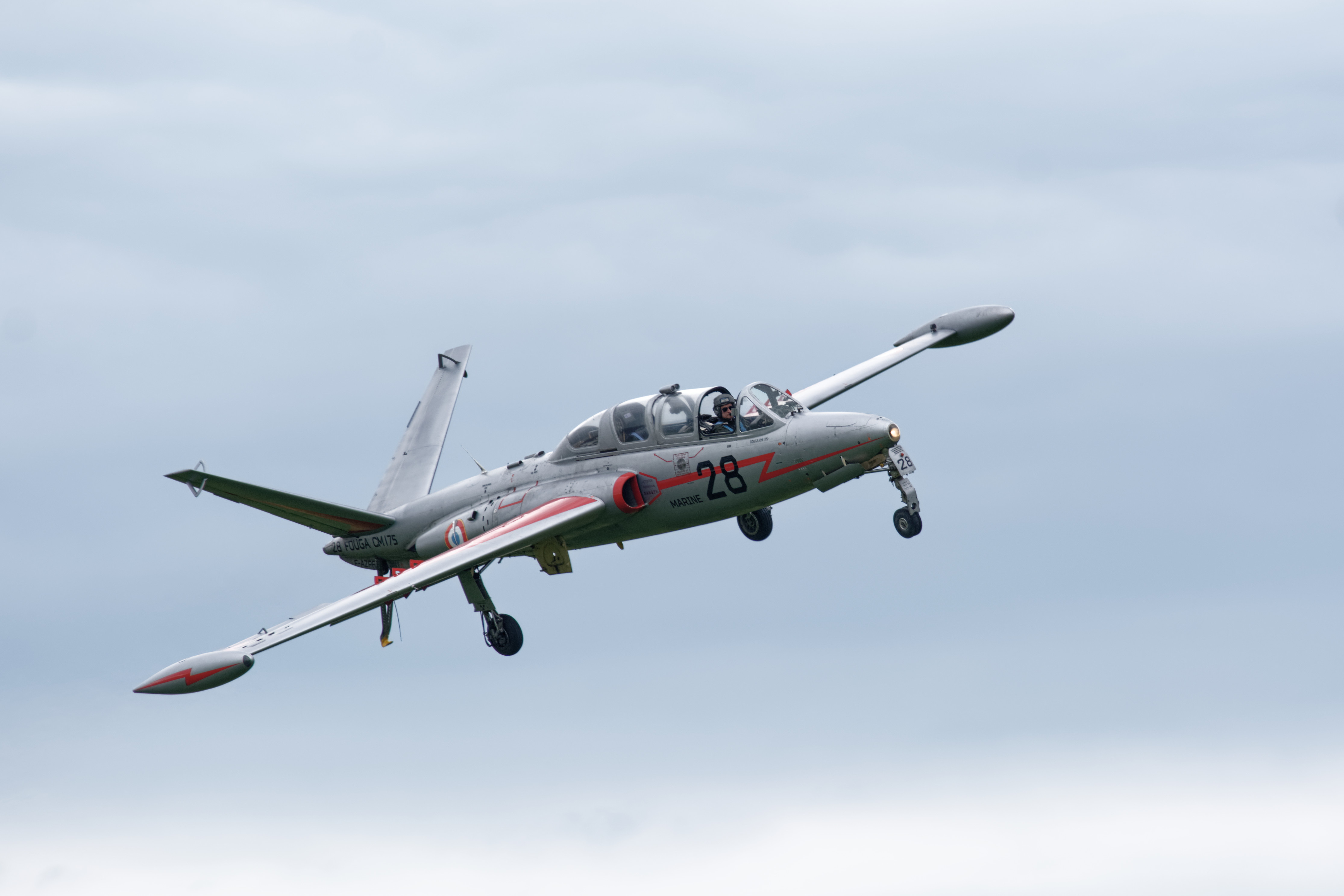 The Fouga CM-175 "Zéphyr" is the naval version of the Fouga CM-170 "Magister"